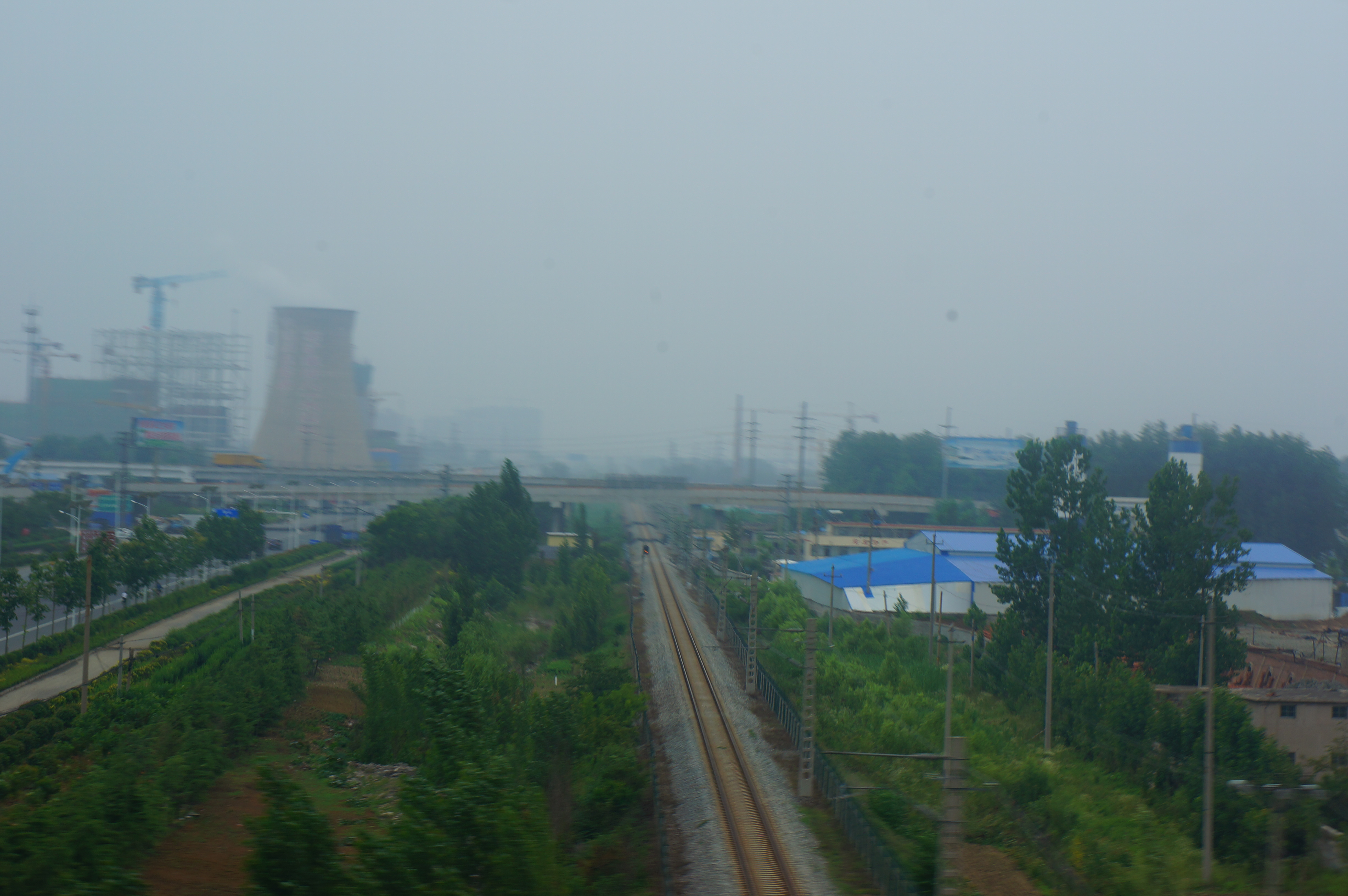 201606 Zaozhuang–Linyi Railway